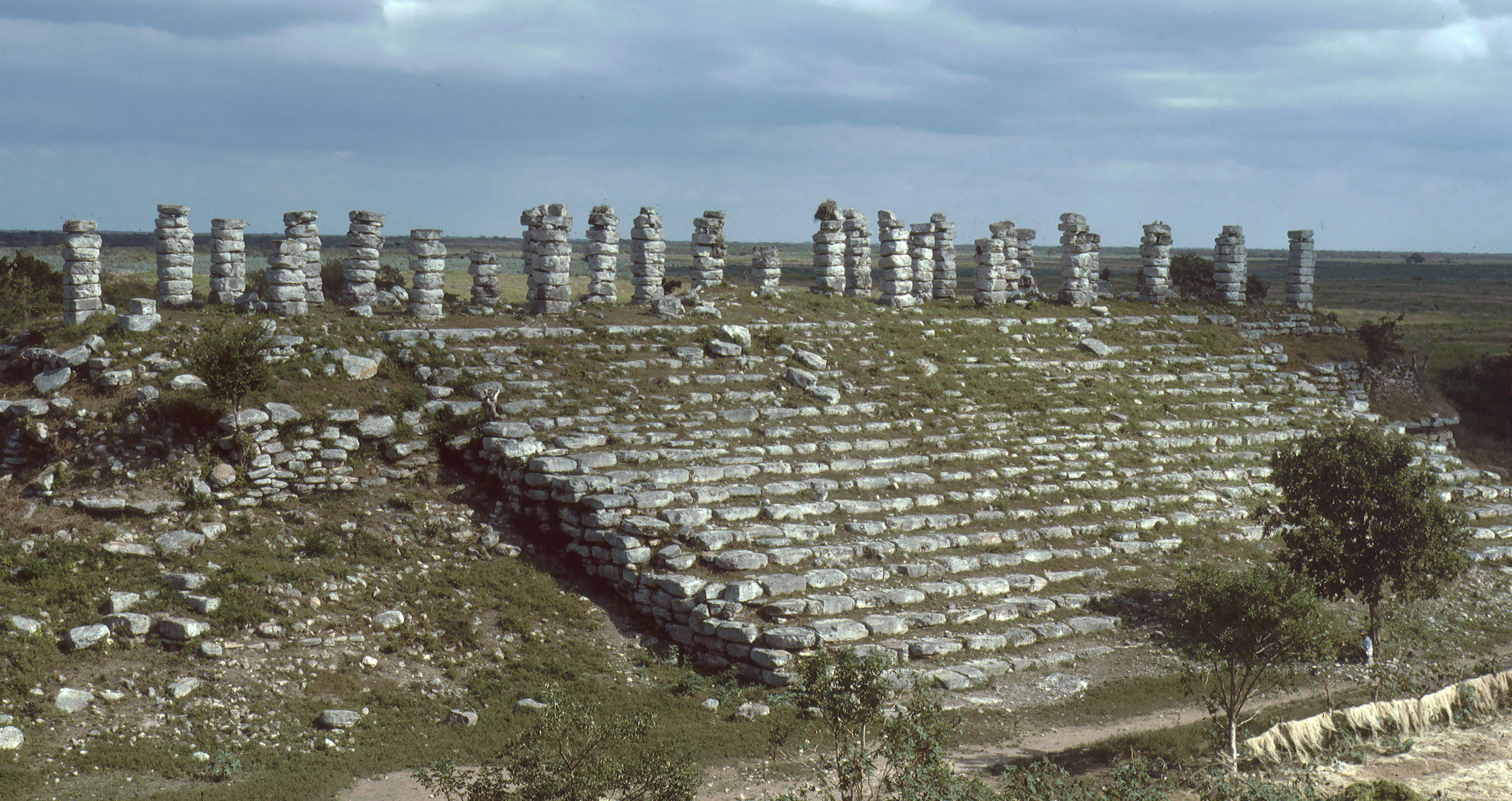 Aké, Yucatan, Mexico: columns building.